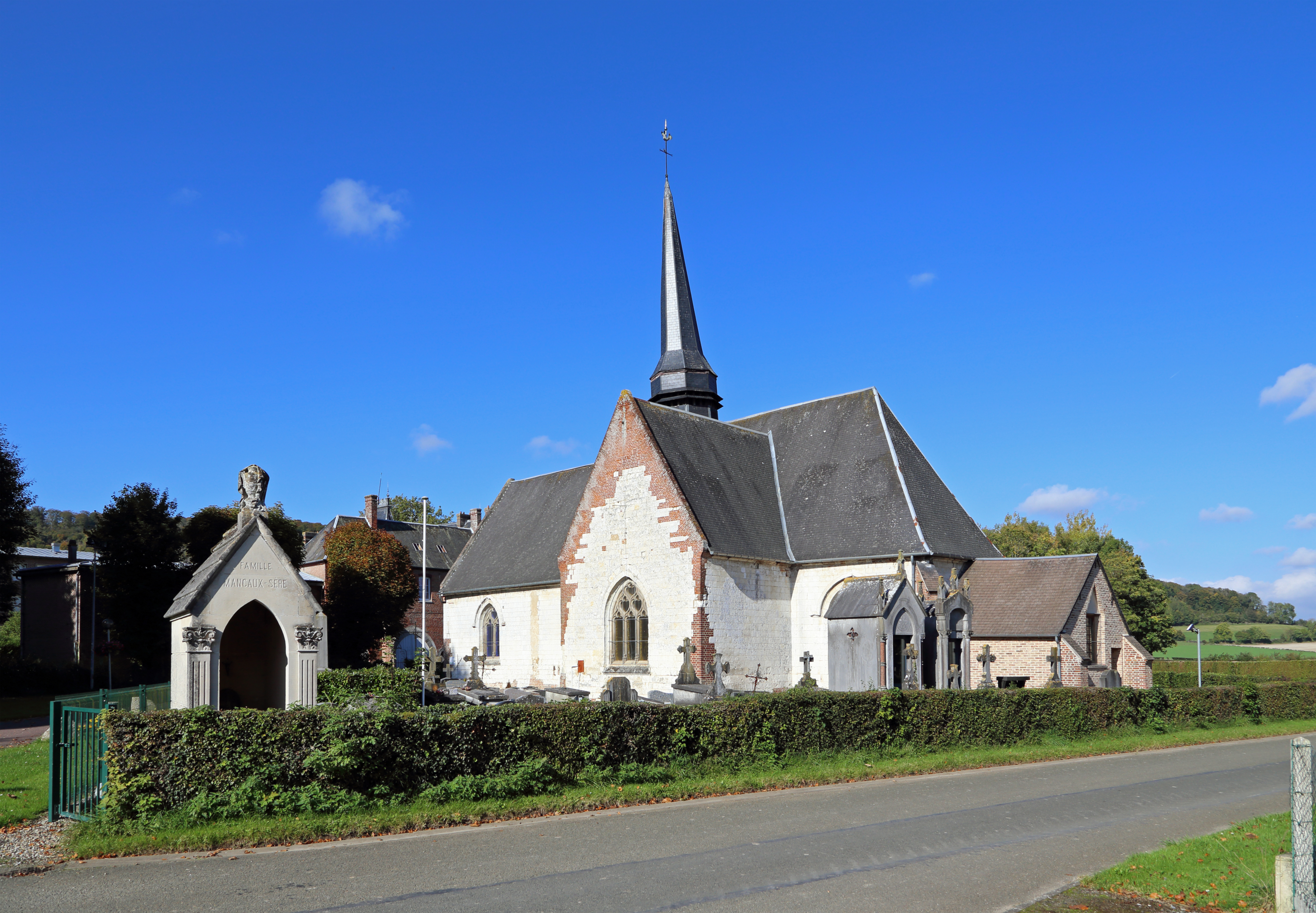 Rieux (Seine-Maritime department, France): Saint Martin and Saint Bartholomew church